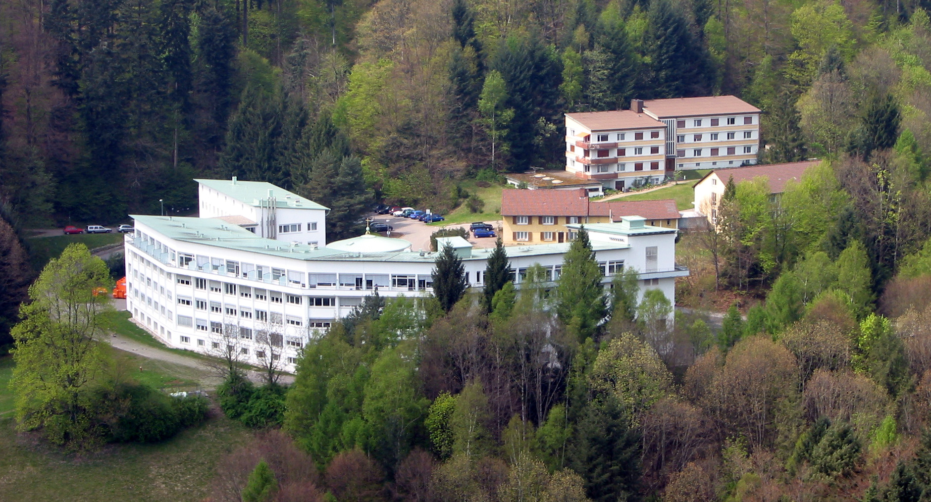 This is the Bruder Klaus Hospital in Waldkirch seen from the tower of the Kastelburg